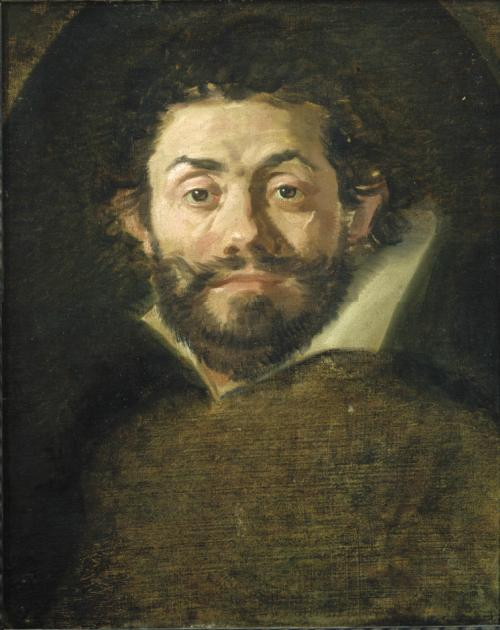 Portrait of John Barclay This image is available from the Netherlands Institute for Art Historyunder digital ID 37960. This tag does not indicate the copyright status of the attached work. A normal copyright tag is still required. See Commons:Licensing.